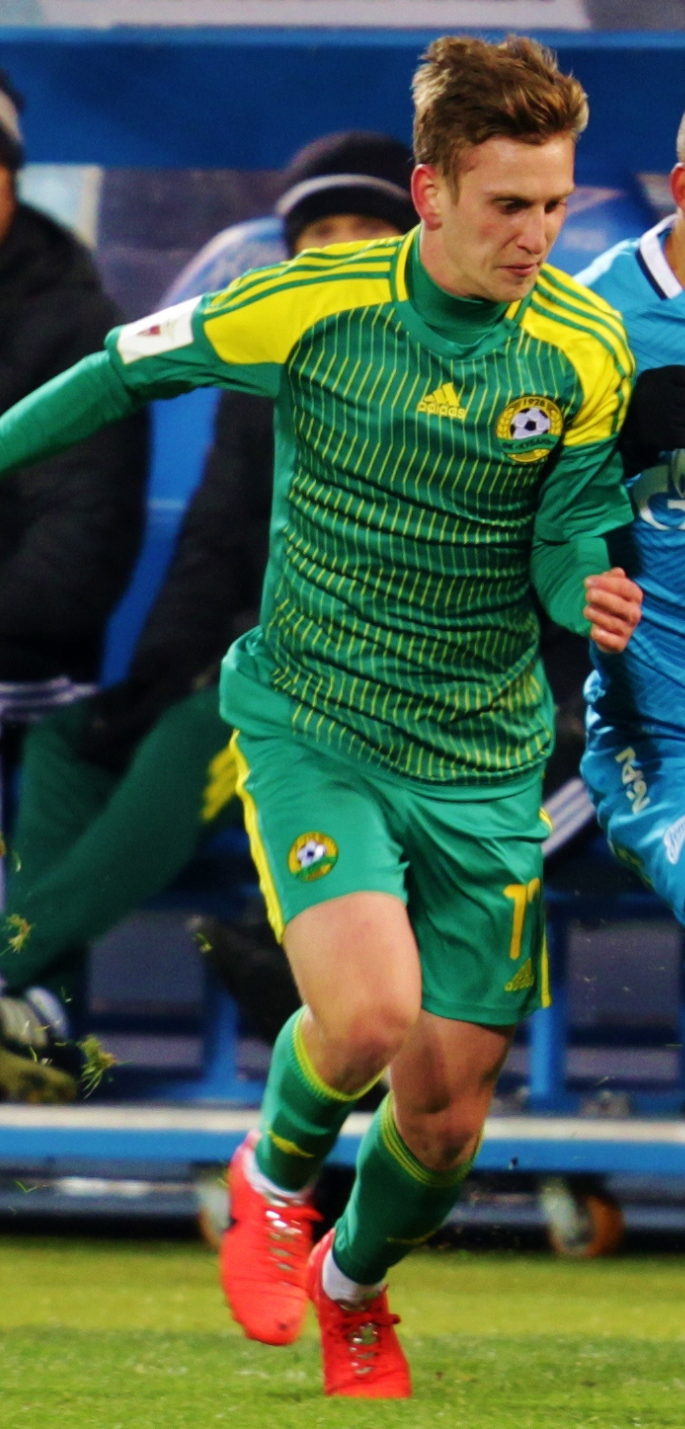 Svyatoslav Georgievskiy